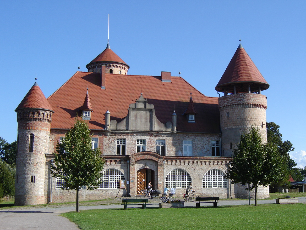 Stolpe Castle, Usedom Island.